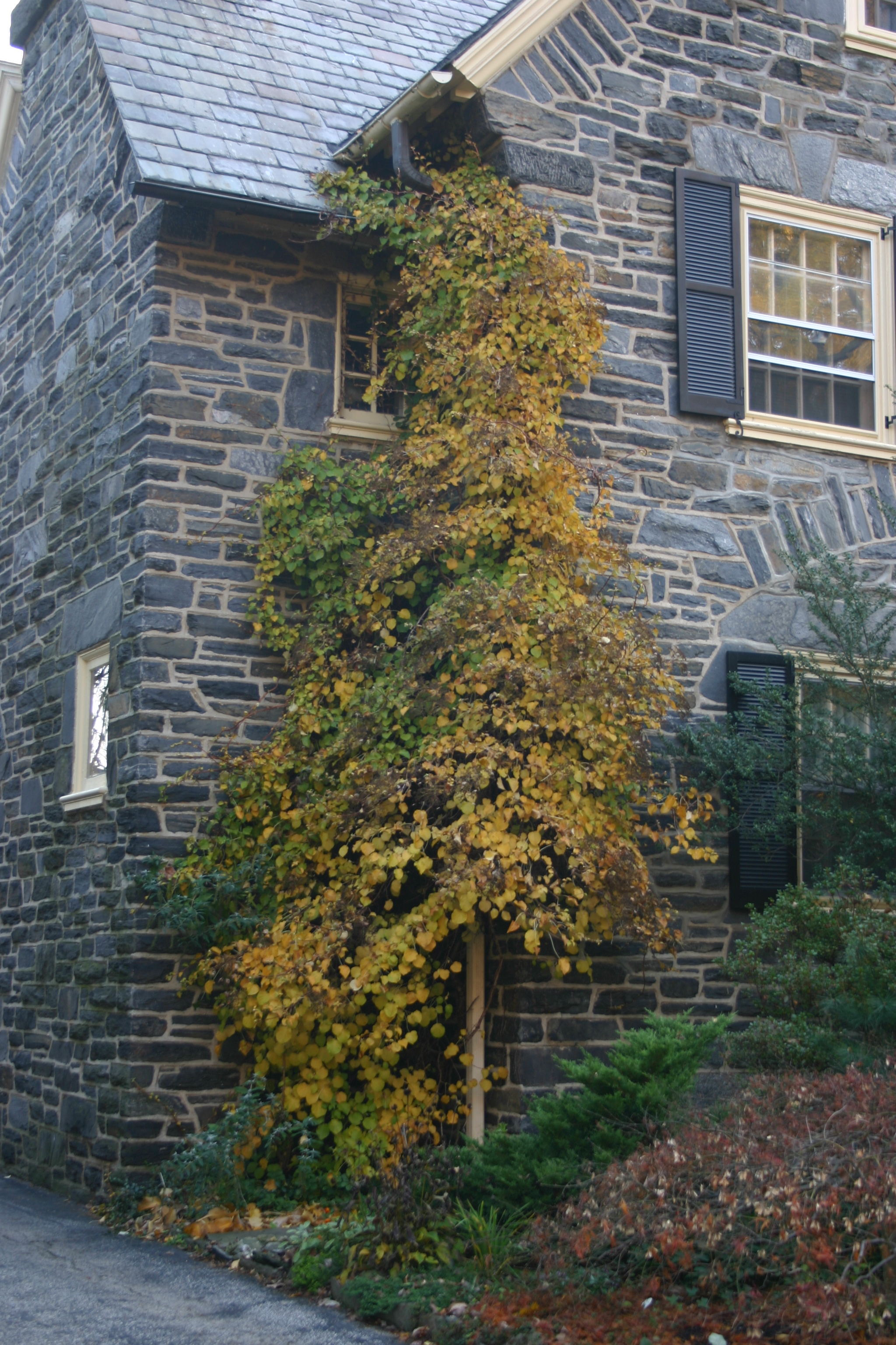 Hydrangea petiolaris — (synonym: Hydrangea anomala subsp. petiolaris). Growing on a house wall, in fall color.